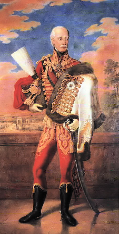 Portrait of Archduke Joseph Anton of Austria (1776-1847)